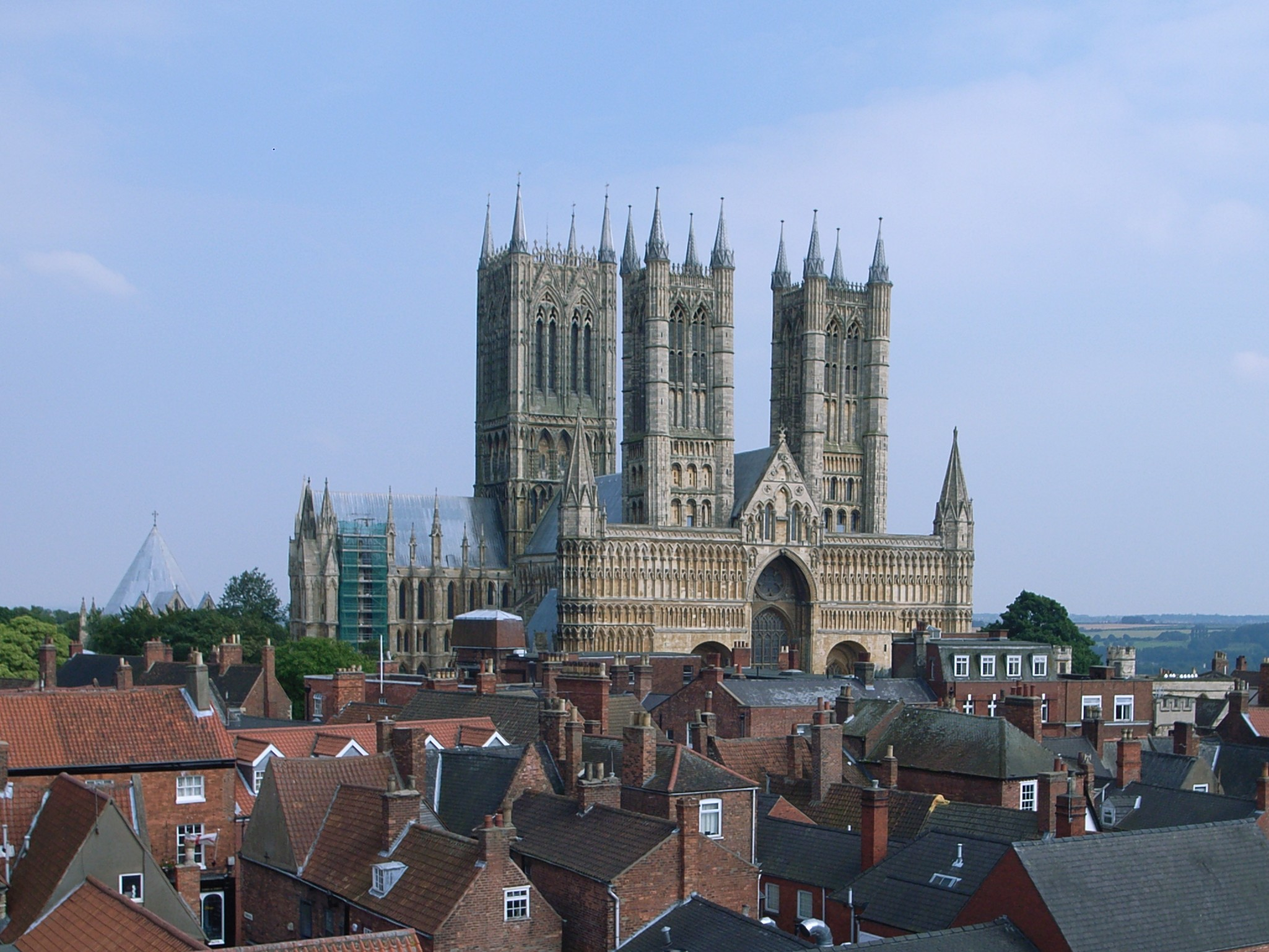 Lincoln Cathedral - view from the Castle. I know this is the same view that _everybody_ takes, but it's impossible to resist. NOTE: I concur with the above and have cropped this pic for use in the wiki article about cathedrals, to compare this view with the view of Florence. User:Amandajm